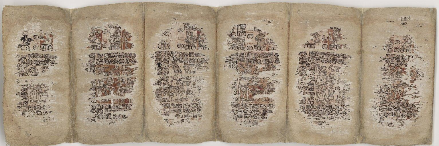 Pages 2-7 of the Paris Codex, a Postclassic Maya book.